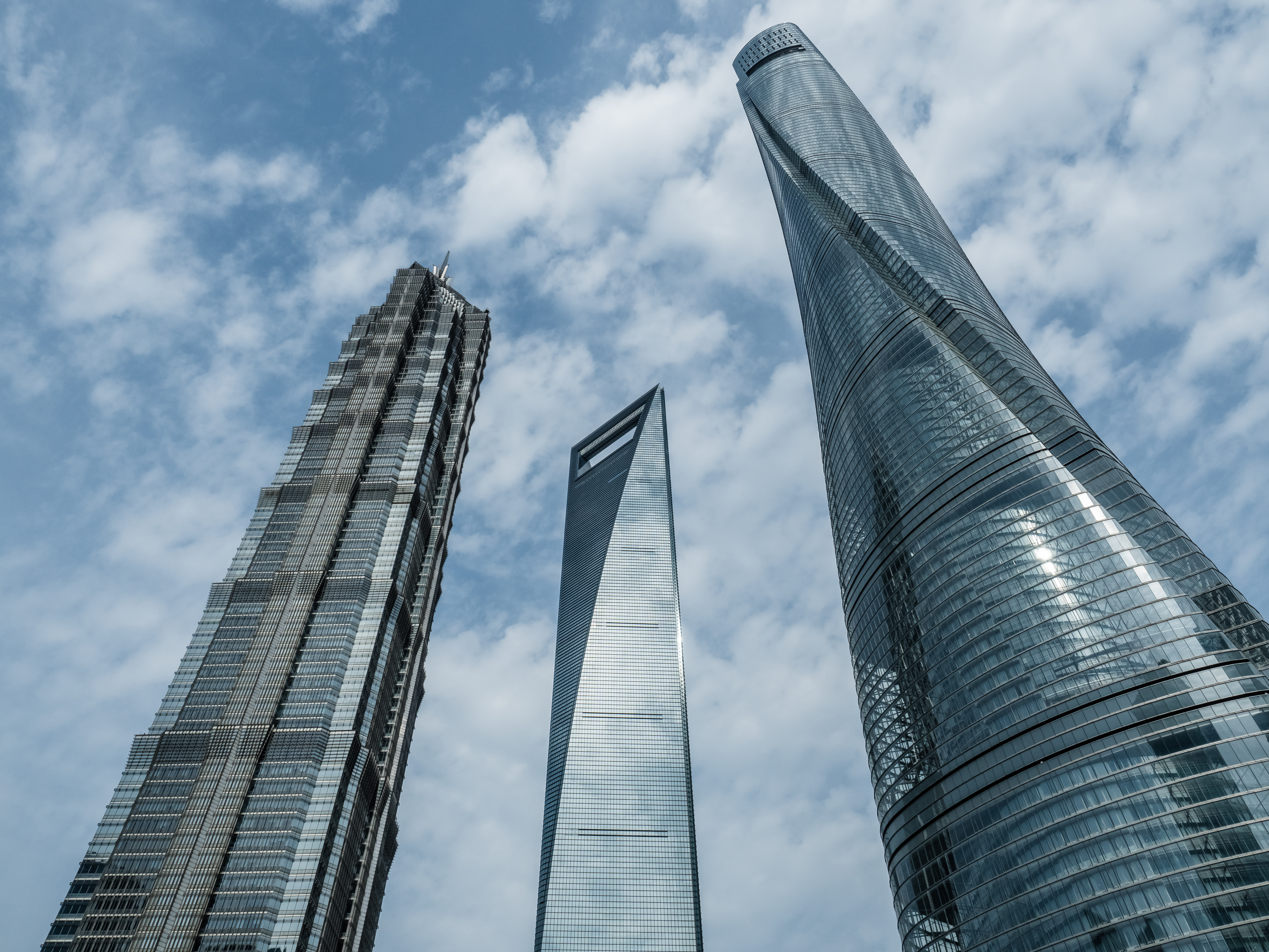 Jin Mao Tower,Shanghai World Financial Center and Shanghai tower from left to right